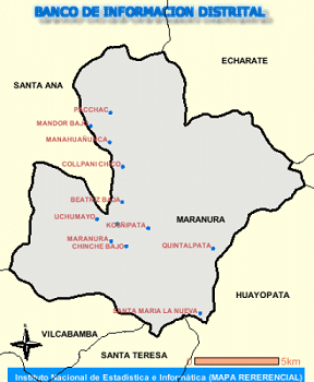 mapa